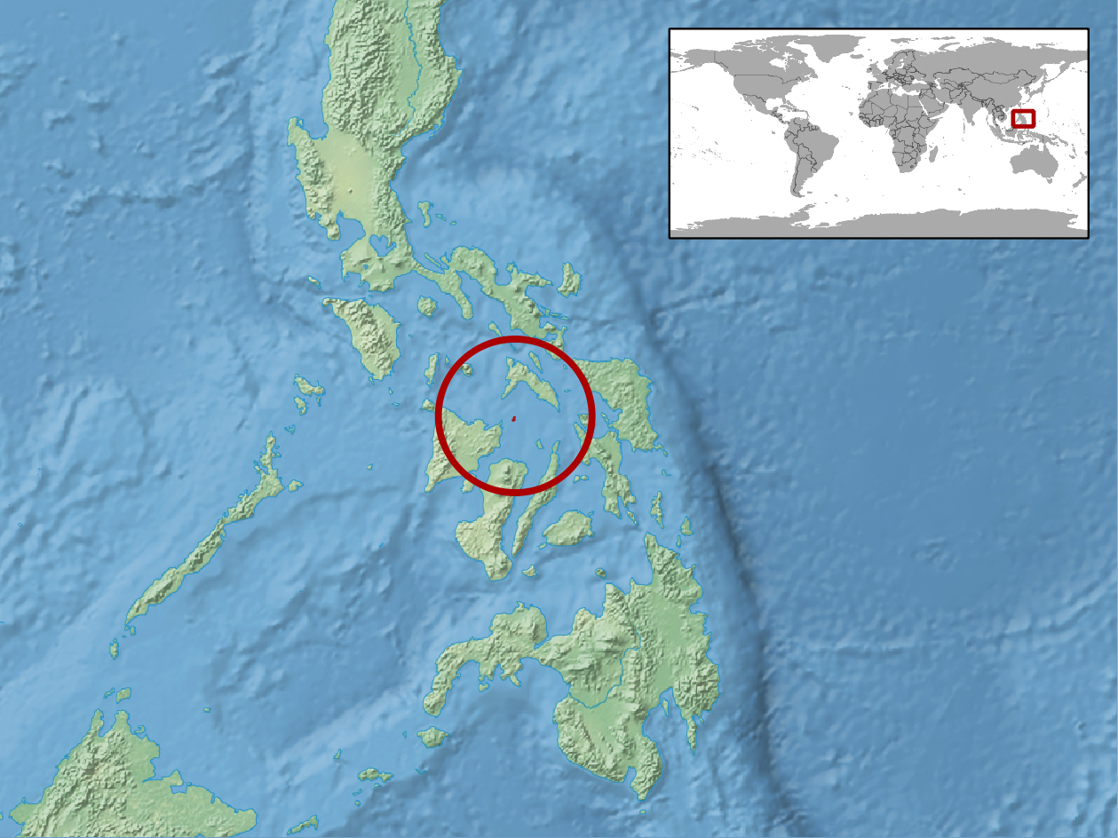 geographic distribution of Gekko gigante (Native: Philippines)